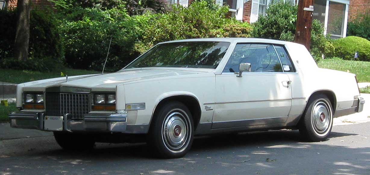 1979-1985 Cadillac Eldorado photographed in Bethesda, Maryland, USA.